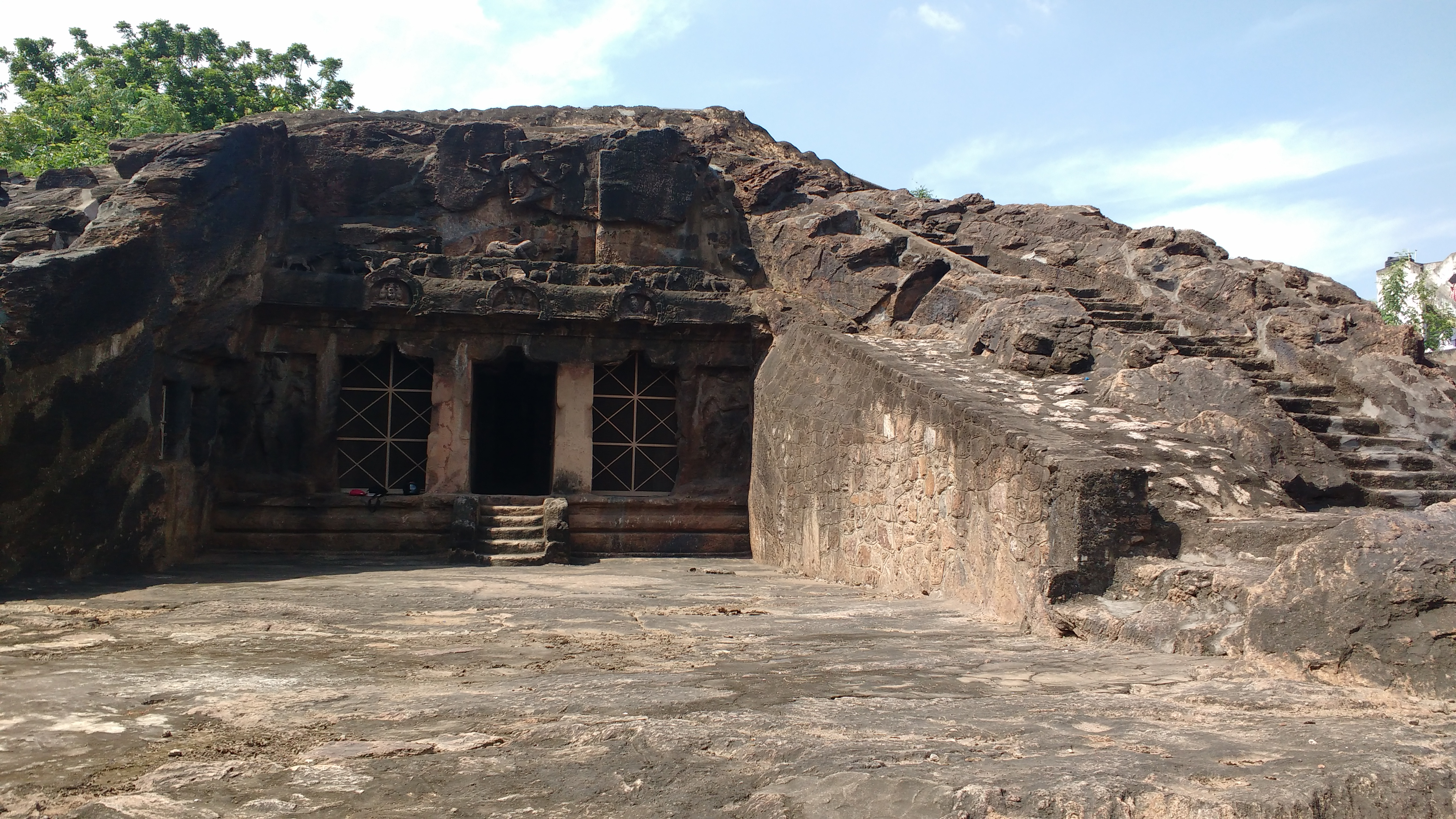 The cave is a home for 3 temples and is located in Vijayawada. It is one of the centrally protected caves of National Importance.